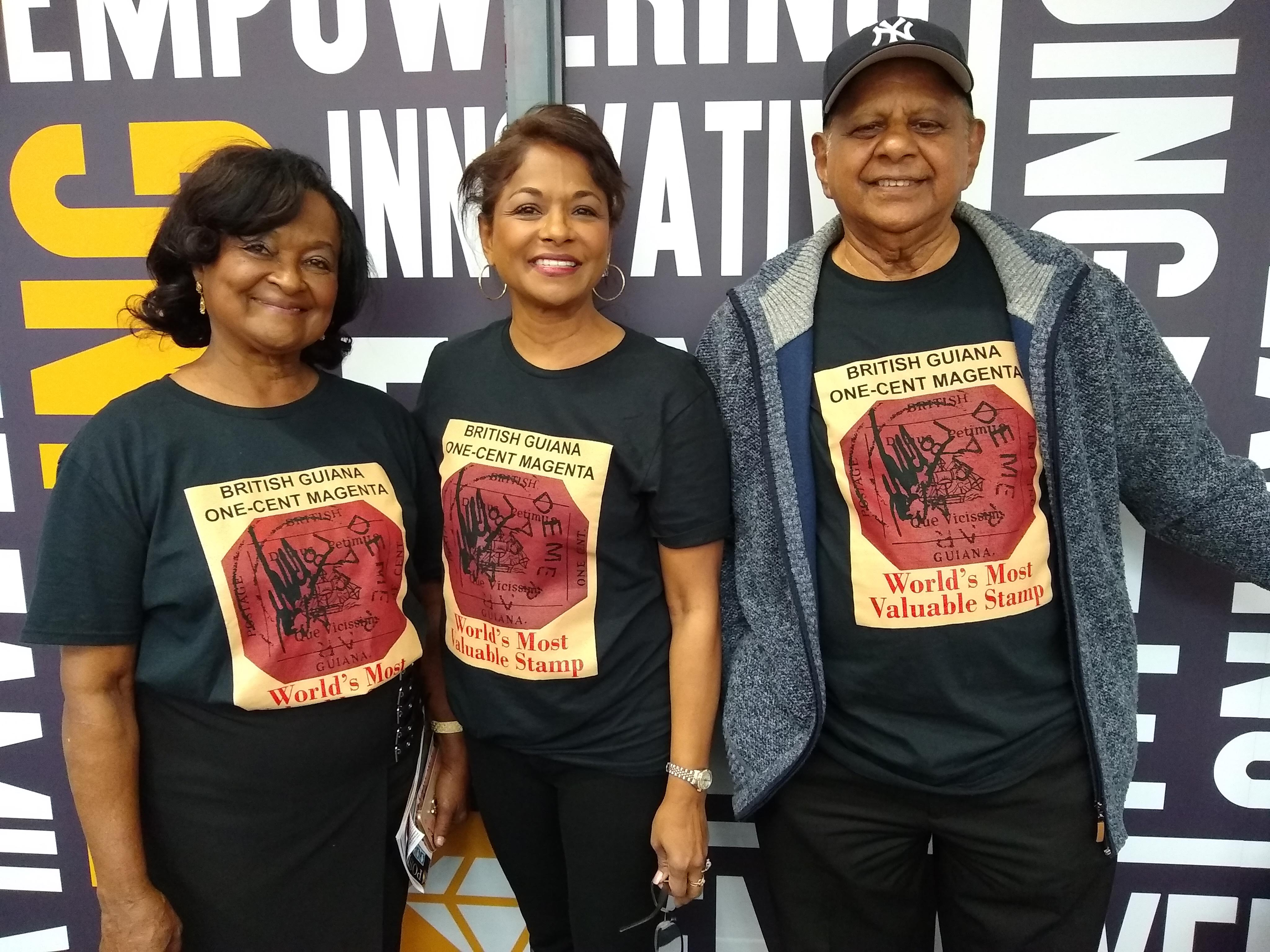 Guyana Philatelic Society members with British Guiana 1c magenta t-shirts. Ann Wood, president, centre.